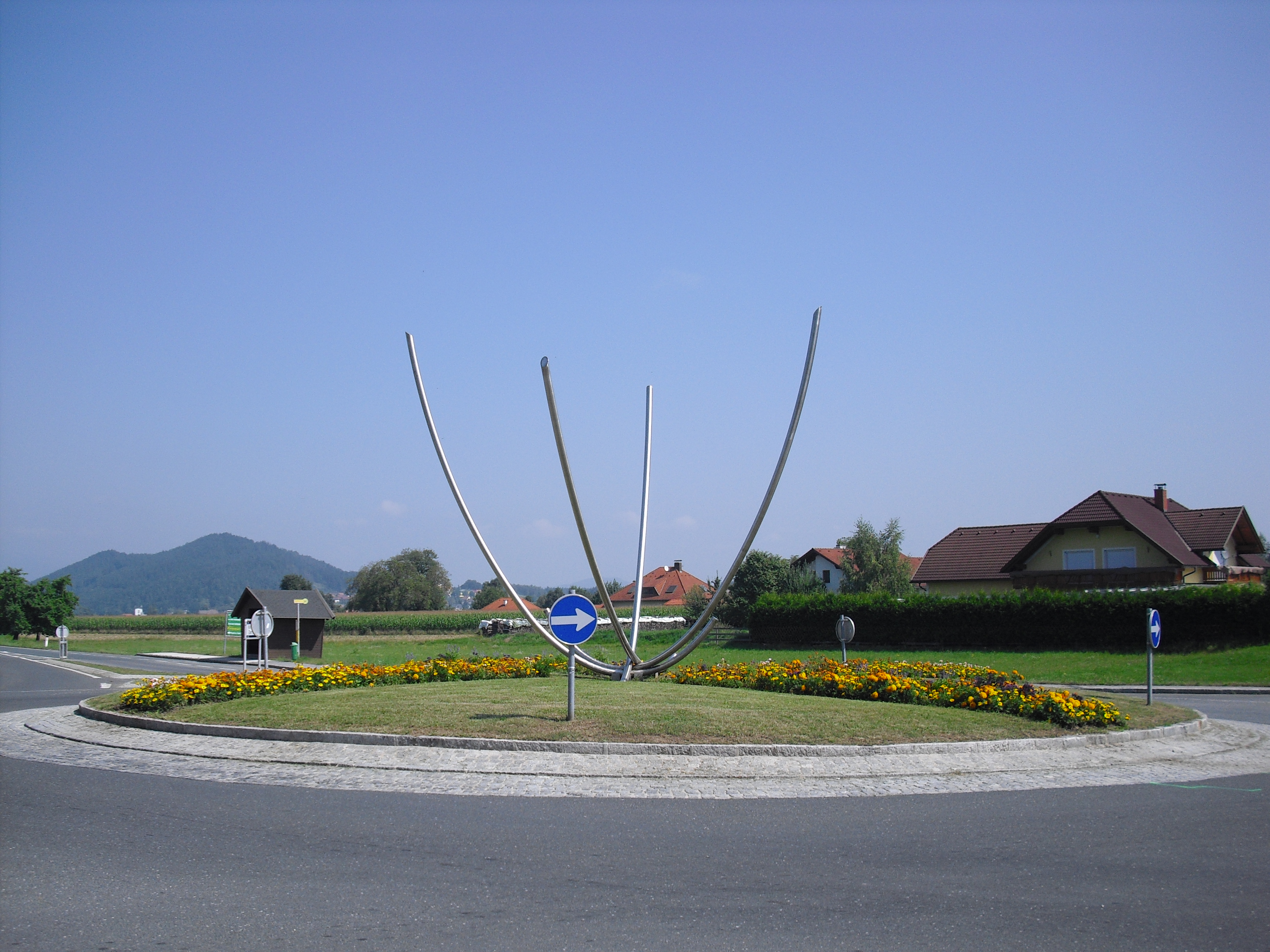 Roundabout in Gösselsdorf, Carinthia